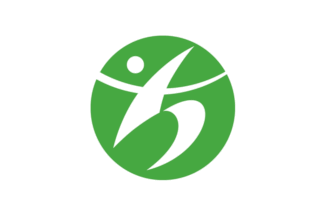 Flag of Chikujo Fukuoka